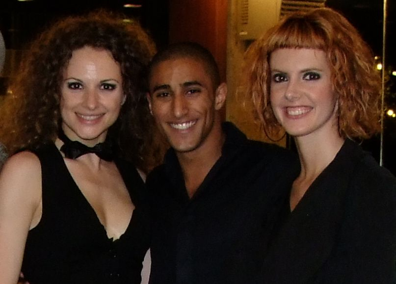 Boaz Mauda with two dancers from the Andorra delegation on a party in Belgrade, Serbia, May 2008. (Original description: La delegació Andorrana amb la israelí)